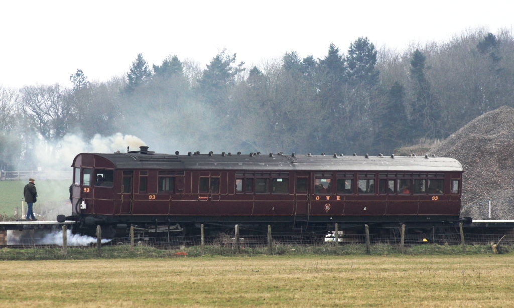 Restored Great Western Railway steam railmotor 93 at Norton Fitzwarren during a visit to the West Somerset Railway.